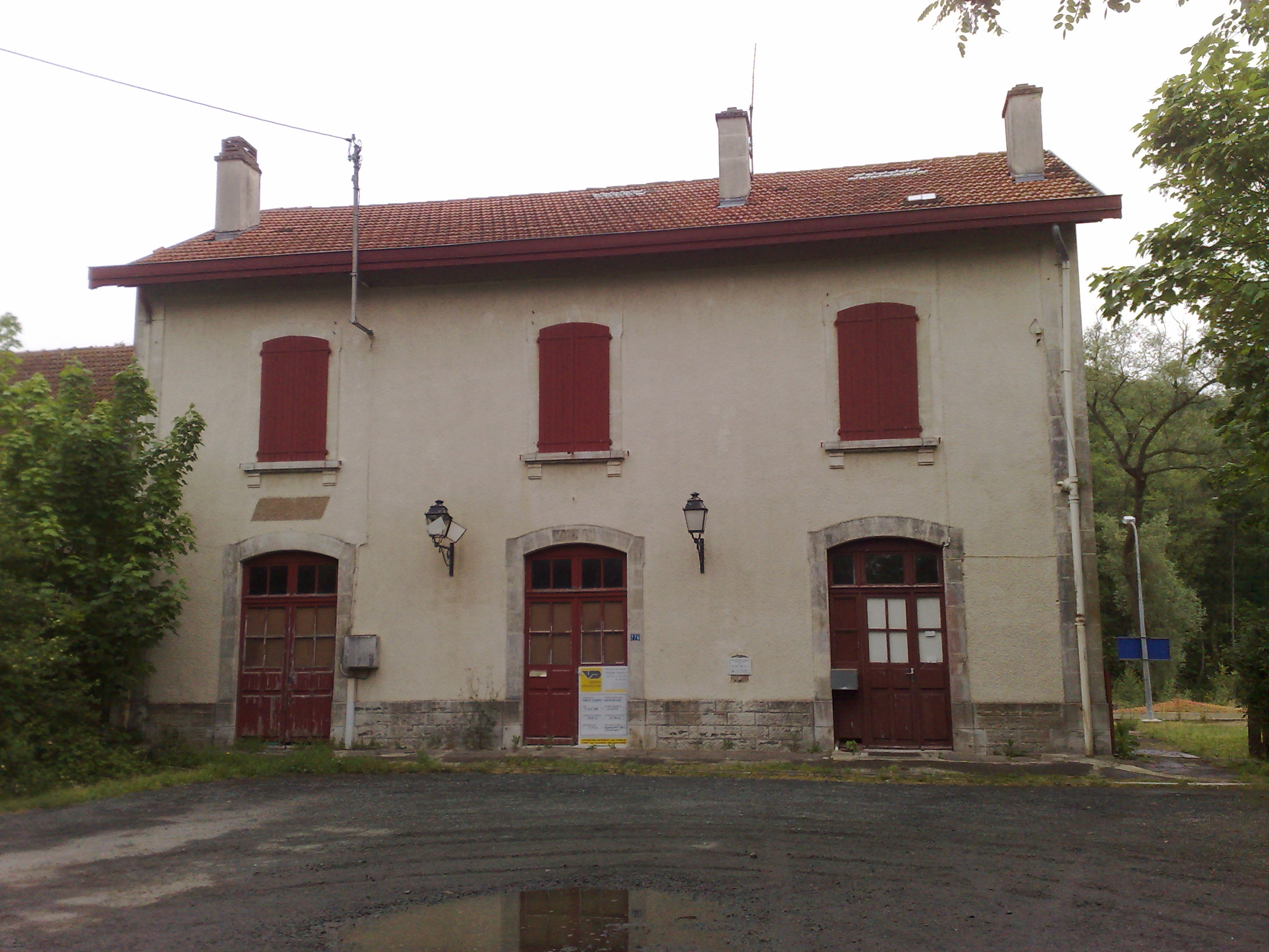 Uztaritze (fr Ustaritz) train station, Lapurdi-Labourd, Basque Country.